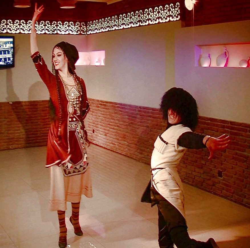 Georgian Folk Dance, mtiuluri, mountain dance of Georgia.